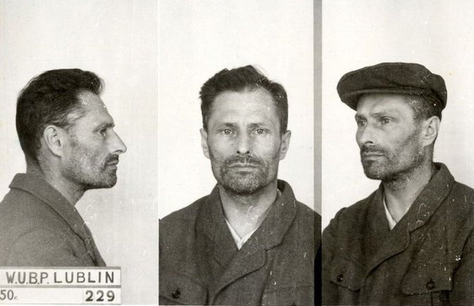 Marian Pilarski (1899-1952) –Major of the Polish Army, soldier of Polish underground ( Armia Krajowa during WW II, later in anti-communist Polish underground. Arrested by communist political police, executed